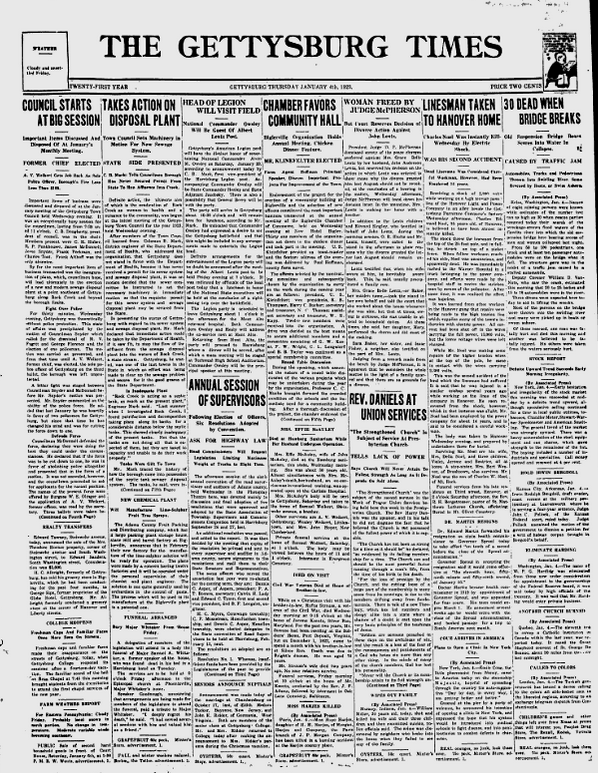 Front page of Jan 4, 1923 edition of Gettysburg Times